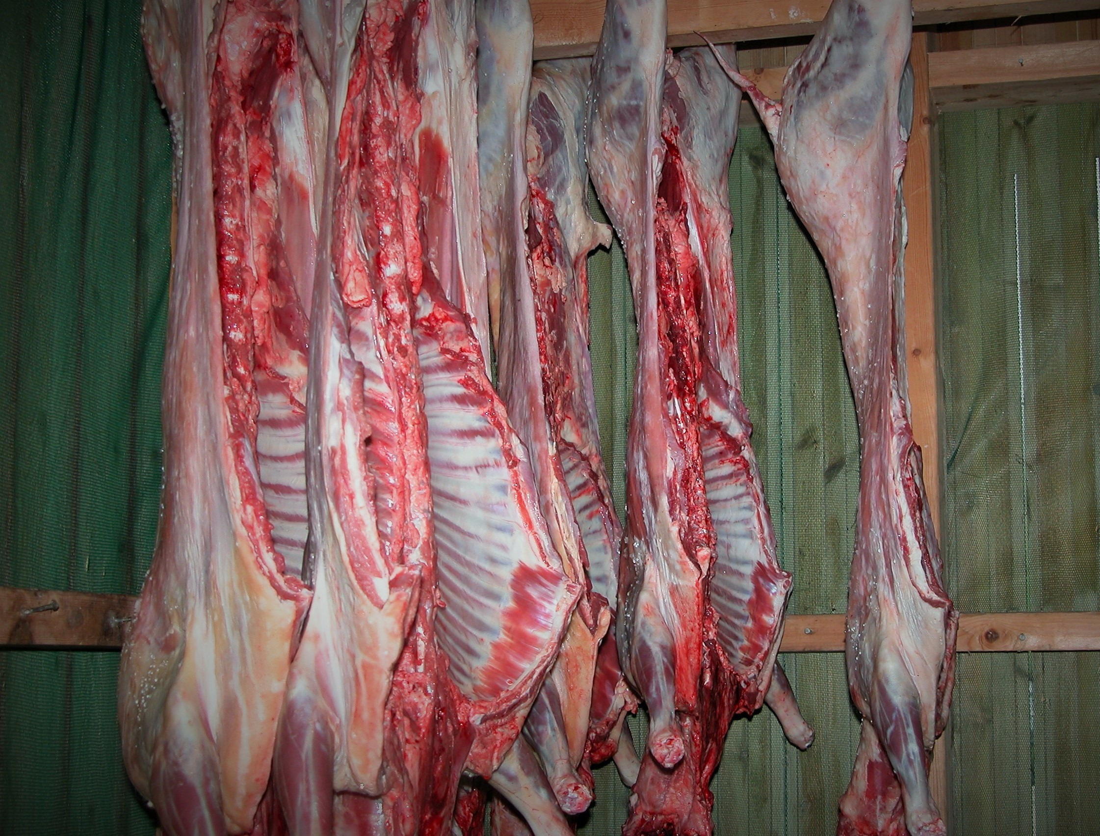 Sheepmeat - the beginning to Restur, Faroe Islands